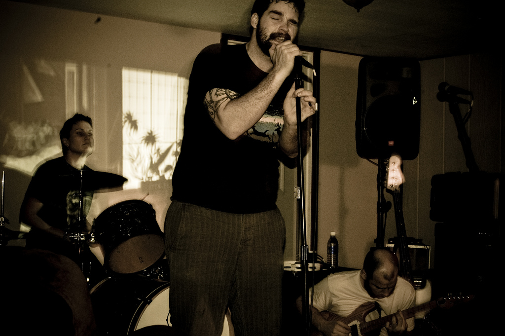 Listener (dan smith). Venue show in Portand Oregon